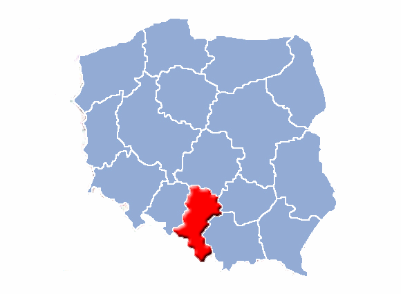 Silesian Voivodship location map